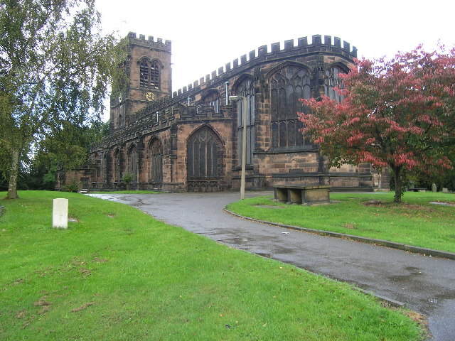 St Helen's parish church, Witton, Cheshire, seen from the southeast